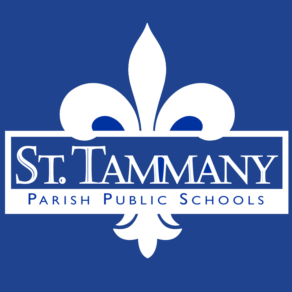 Official logo of the St. Tammany Parish Public School System